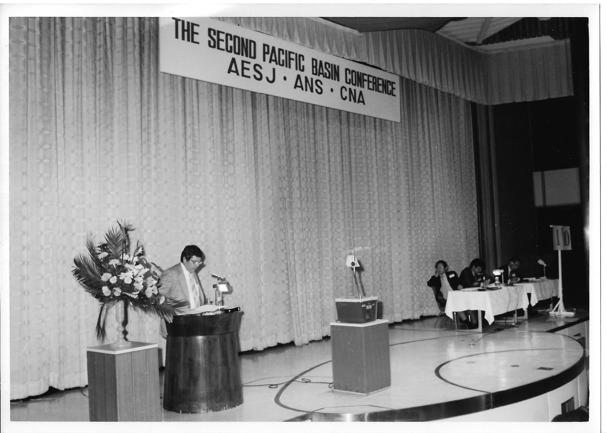 Robert L. Ferguson speaking at the Second Pacific Basin Conference in September 1978 in Tokyo, Japan.